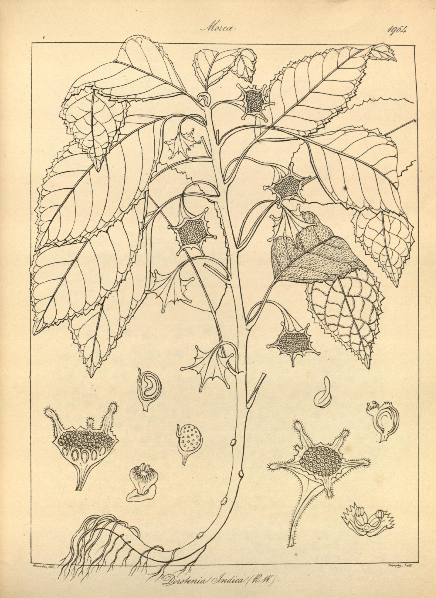 Dorstenia indica, Wight, from Wight, Robert, Icones Plantarum Indiae Orientalis, vol. 6: t. 1964 (1846). Drawing by Govindoo.